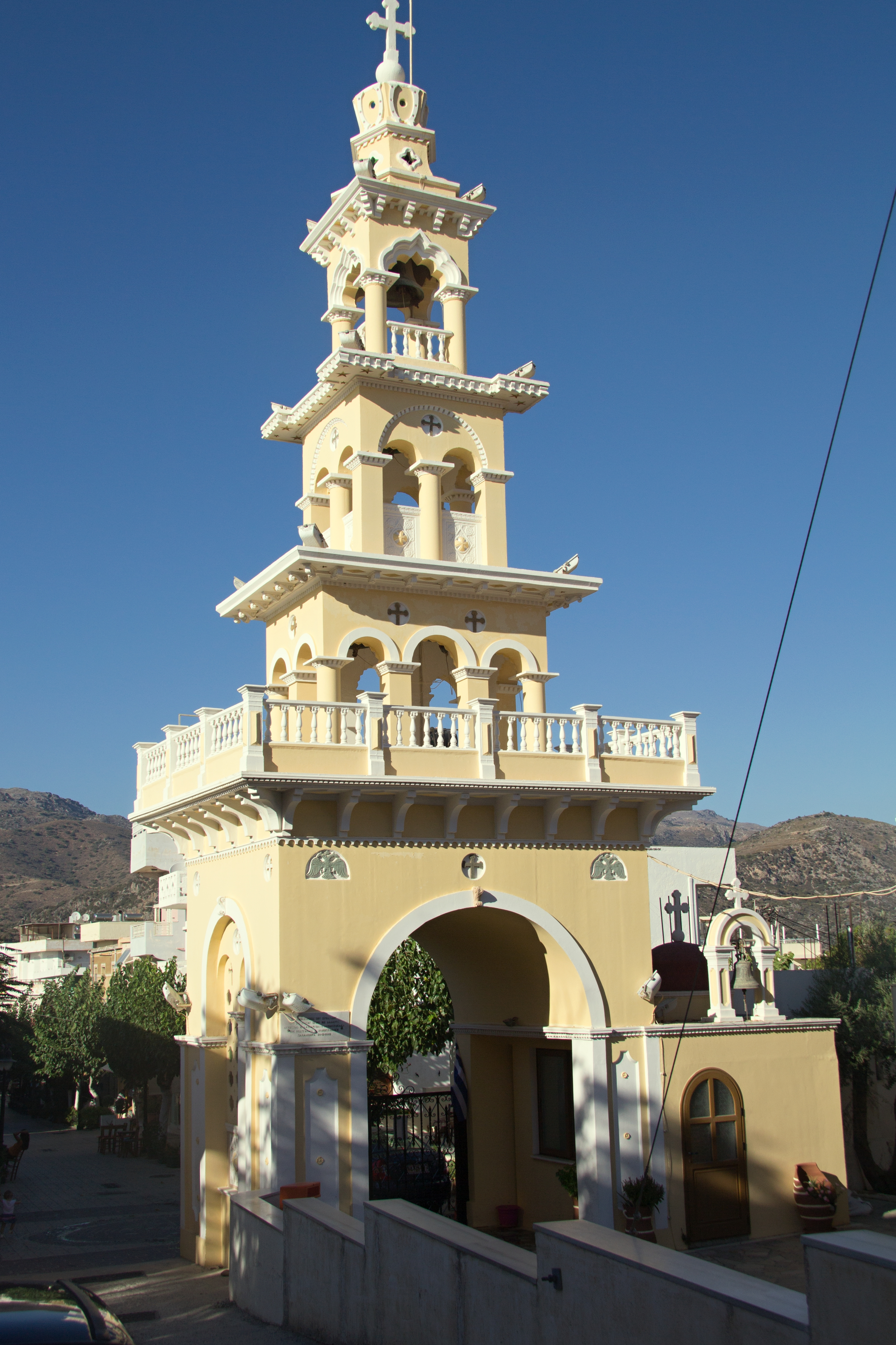 Paleochora, Crete. The bell tower of the Church of Evangelistria (Annunciation).